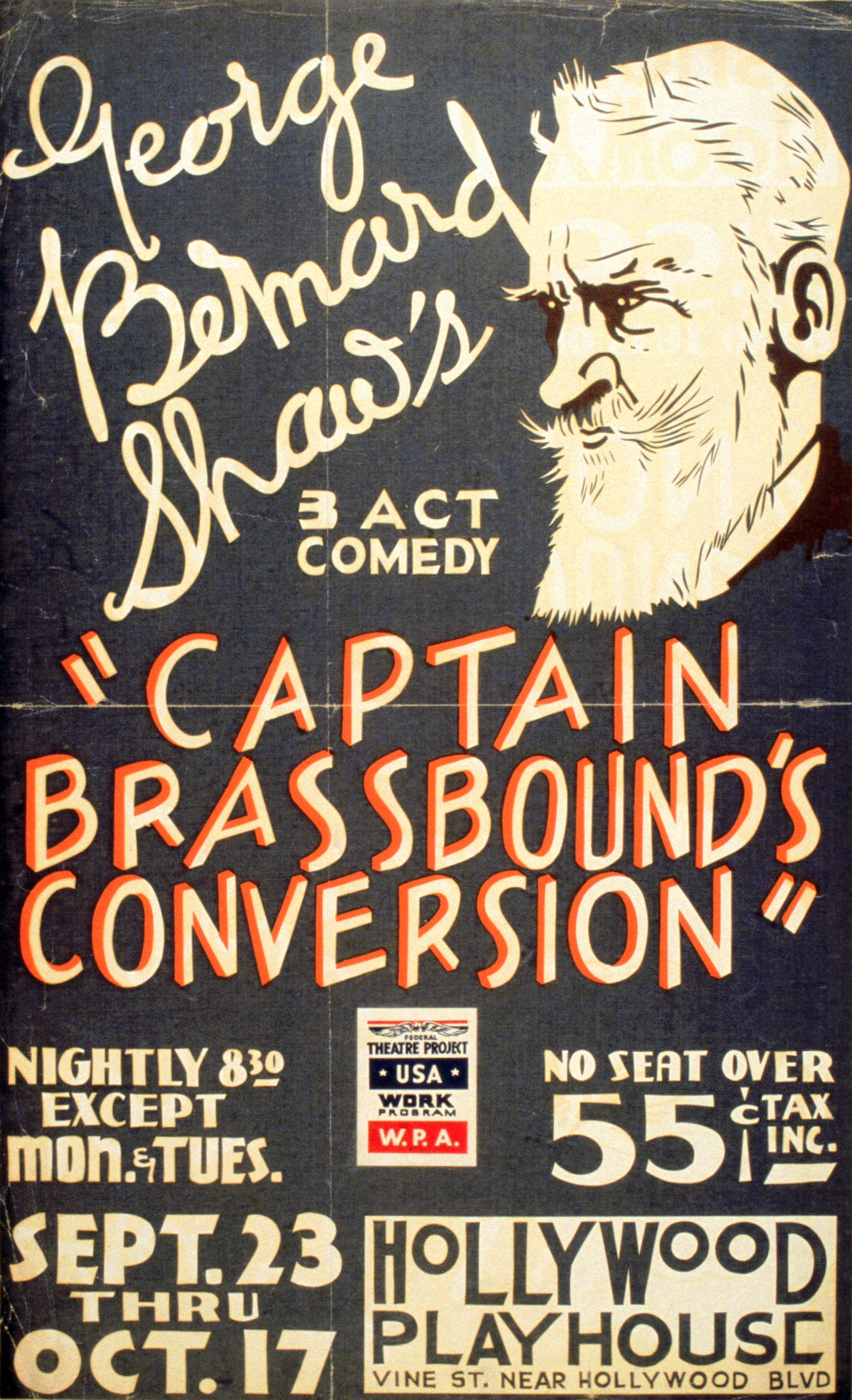 Silkscreen color poster for Federal Theatre Project presentation of "Captain Brassbound's Conversion" by George Bernard Shaw (1856-1950) at the Hollywood Playhouse, Vine Street, near Hollywood Boulevard, Los Angeles, California, with bust portrait of Bernard Shaw.